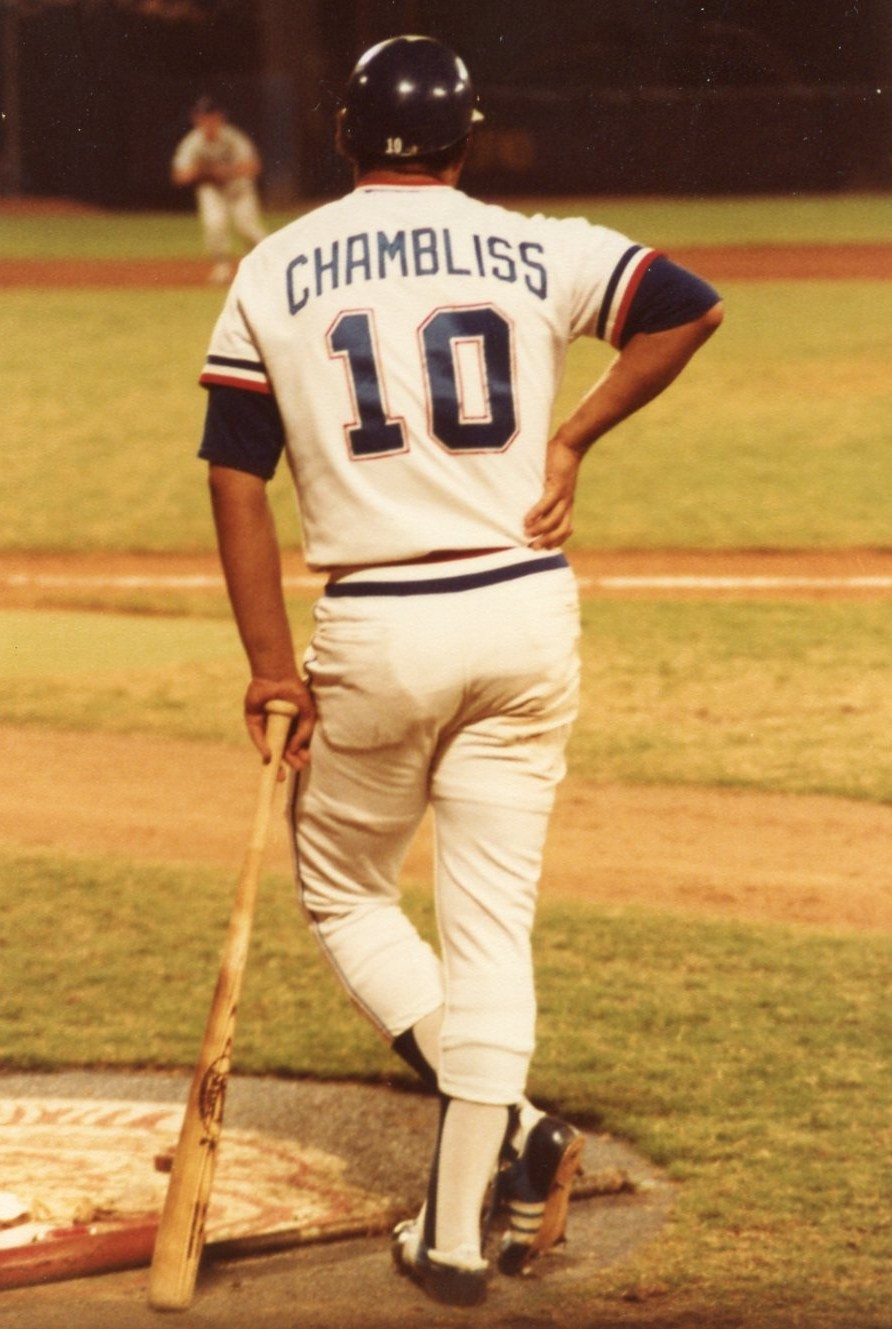 Chris Chambliss